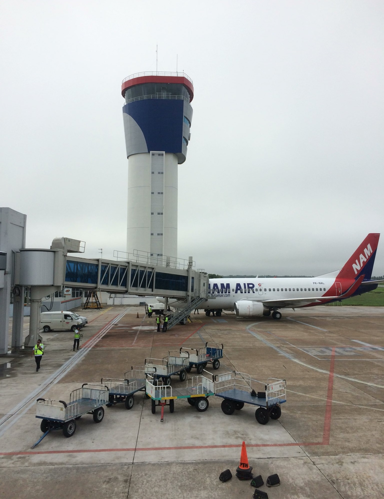 Supadio International Airport, Pontianak, West Kalimantan, Indonesia